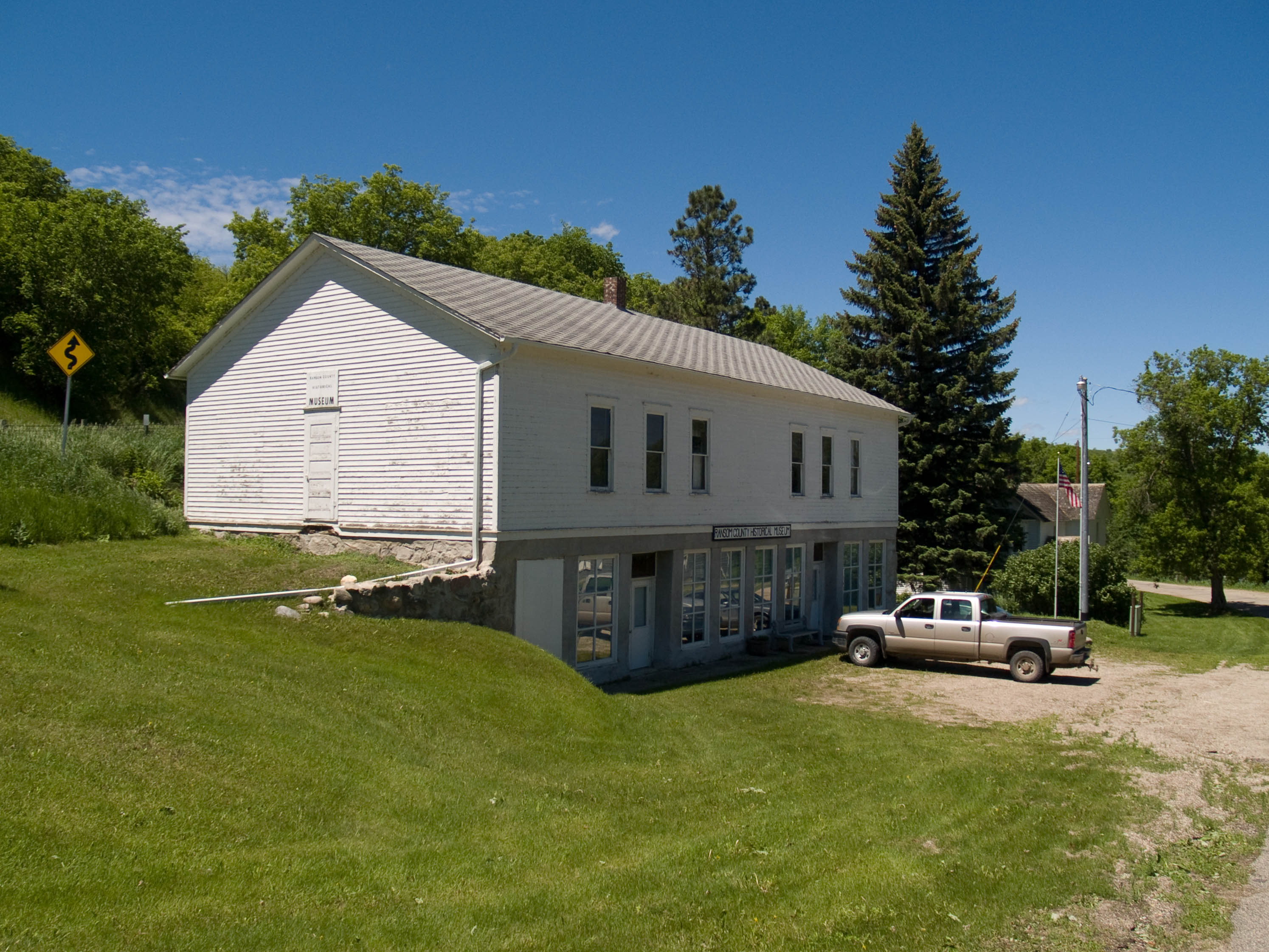 The Ransom County Historical Museum in Fort Ransom, North Dakota. The museum occupies the former Walker Store and is part of the T. J. Walker Historic District.